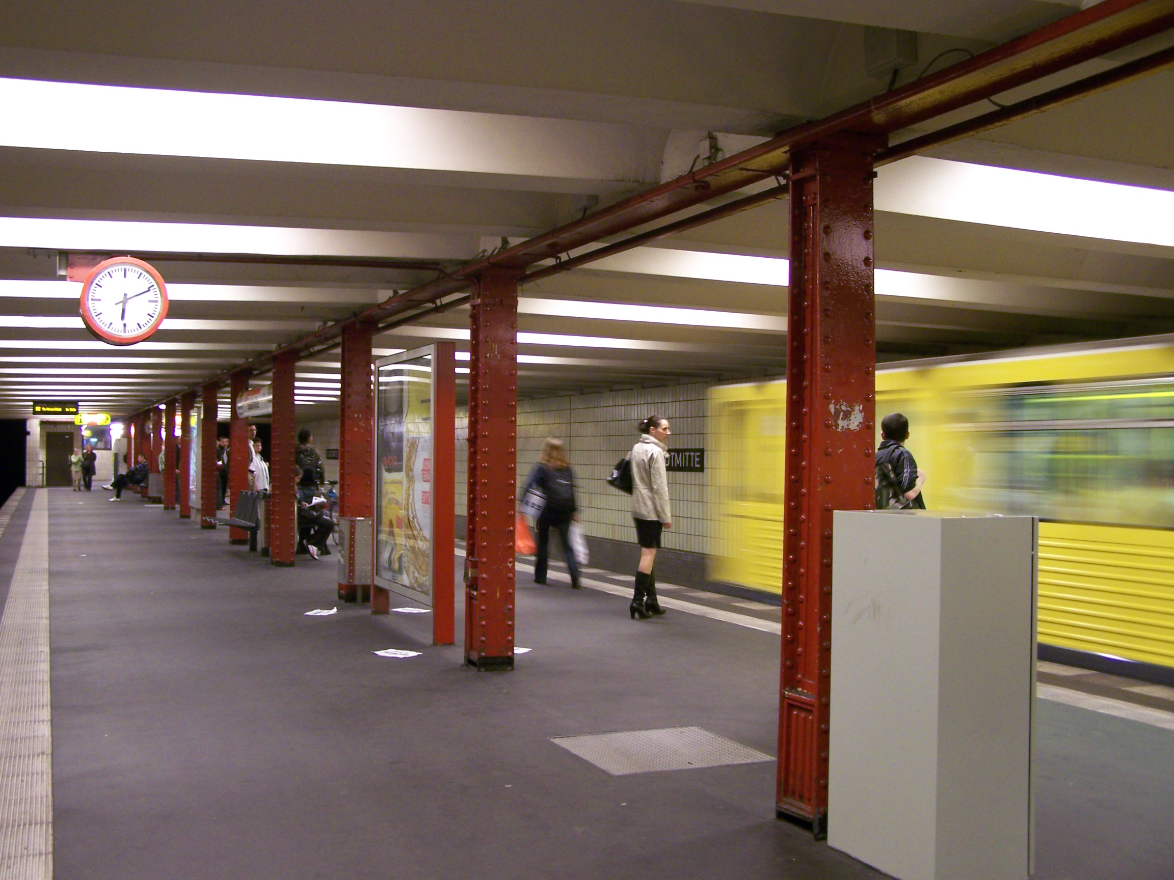 the Berlin U-Bahn station Stadtmitte, line U2